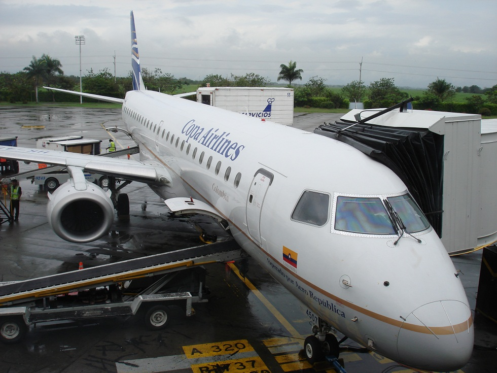 ERJ190 en el Aeropuerto Alfonso Bonilla Aragon